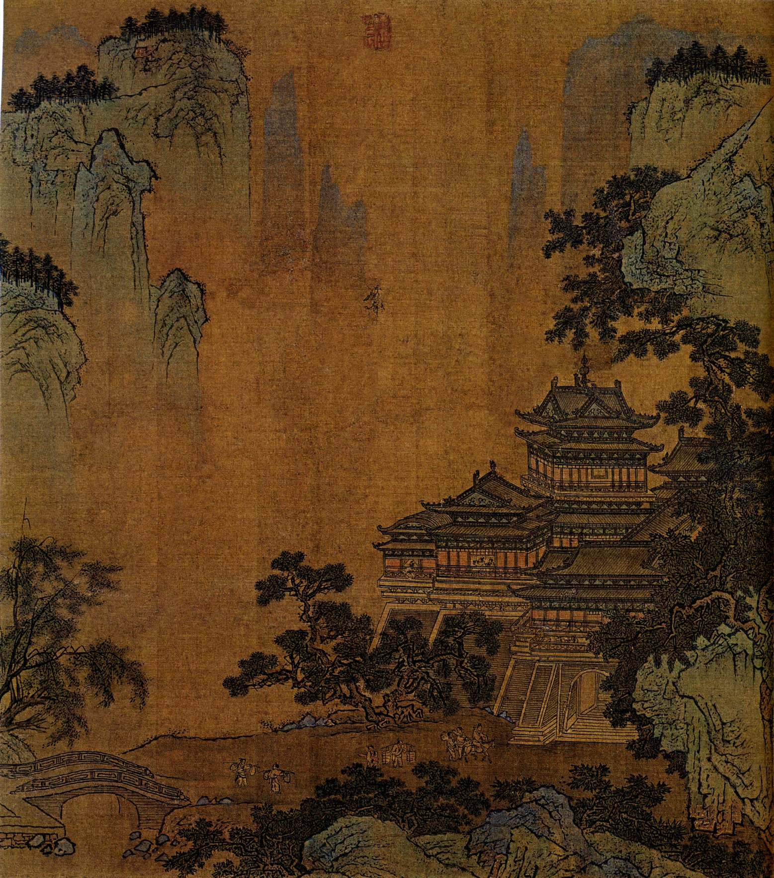 Yellow Crane Tower Book page. Color on silk. Length 33.2 cm, Width 30.4 cm. Located at the Shanghai Museum